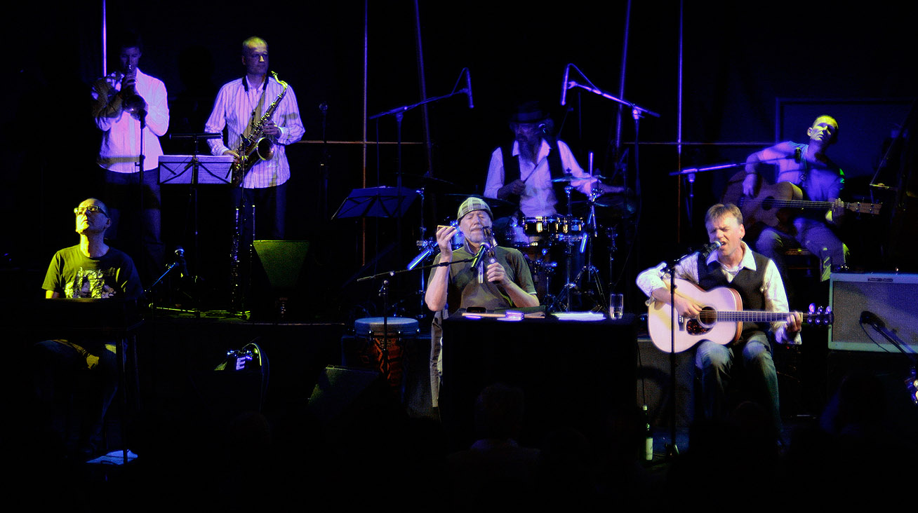 Stubnblues concert at the Metropol in Vienna